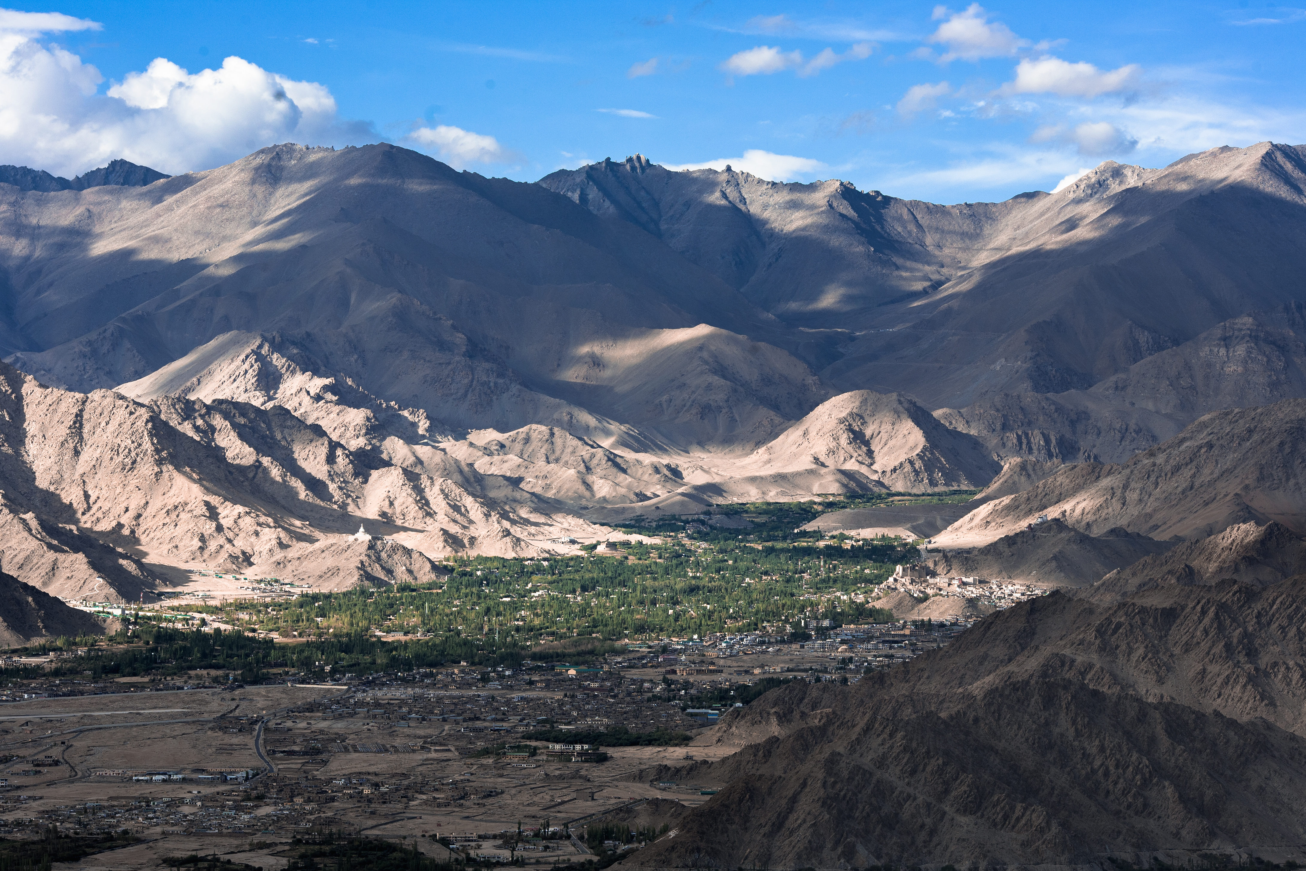 Leh viewed from Stok